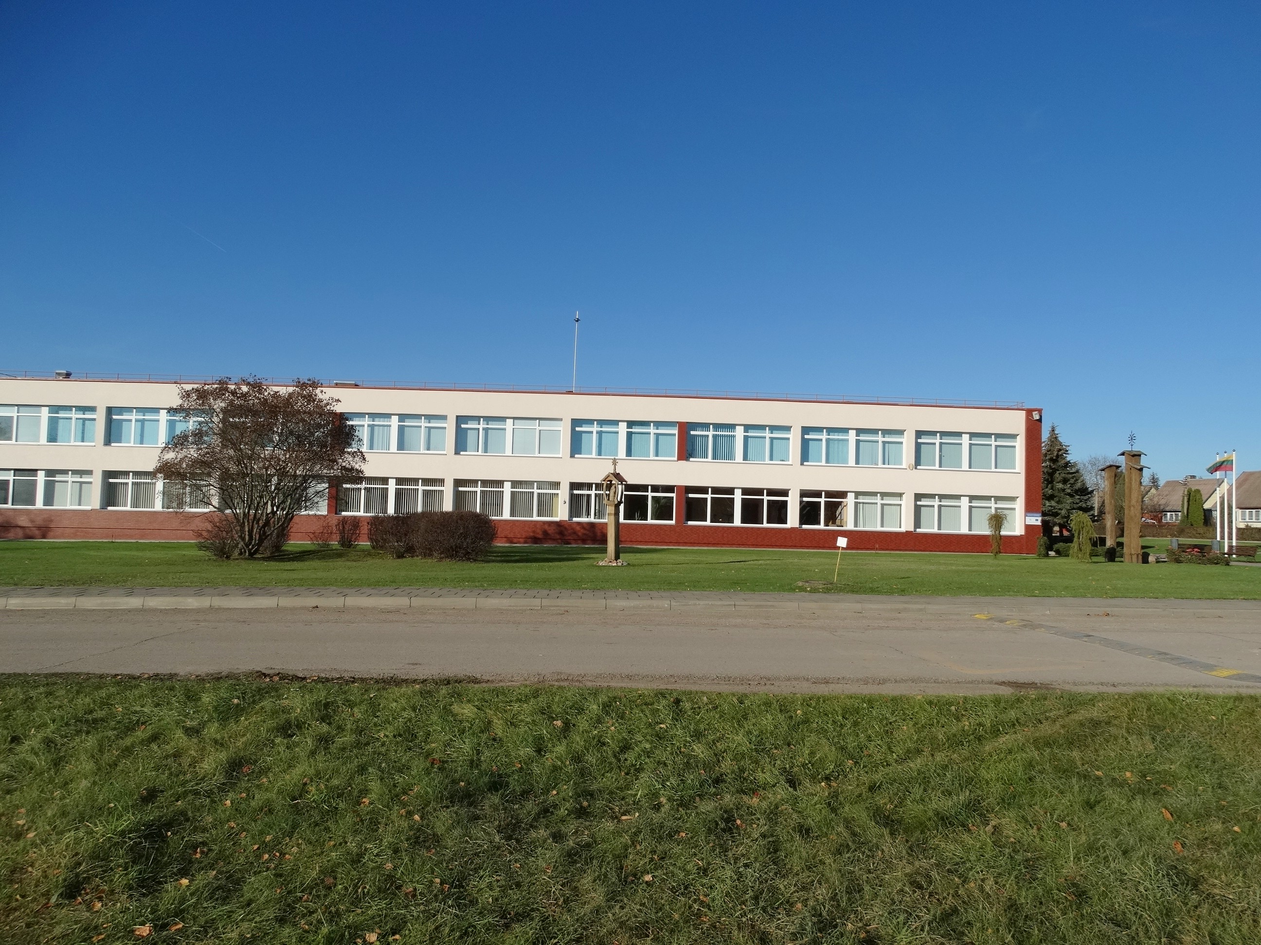 Gymnasium in Butrimonys, Alytus district, Lithuania